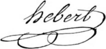 Signature of Jacques-René Hébert.